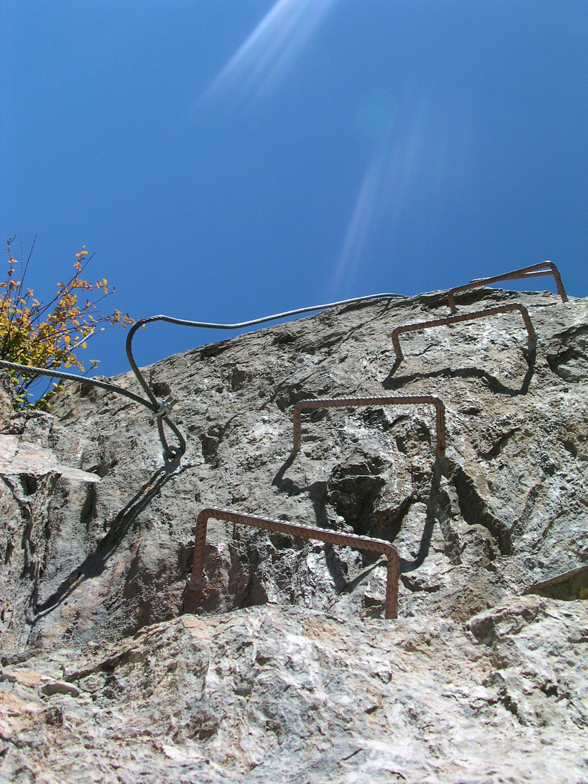 Via ferrata SacsBenasque Cerler, Pyrenees, Spain